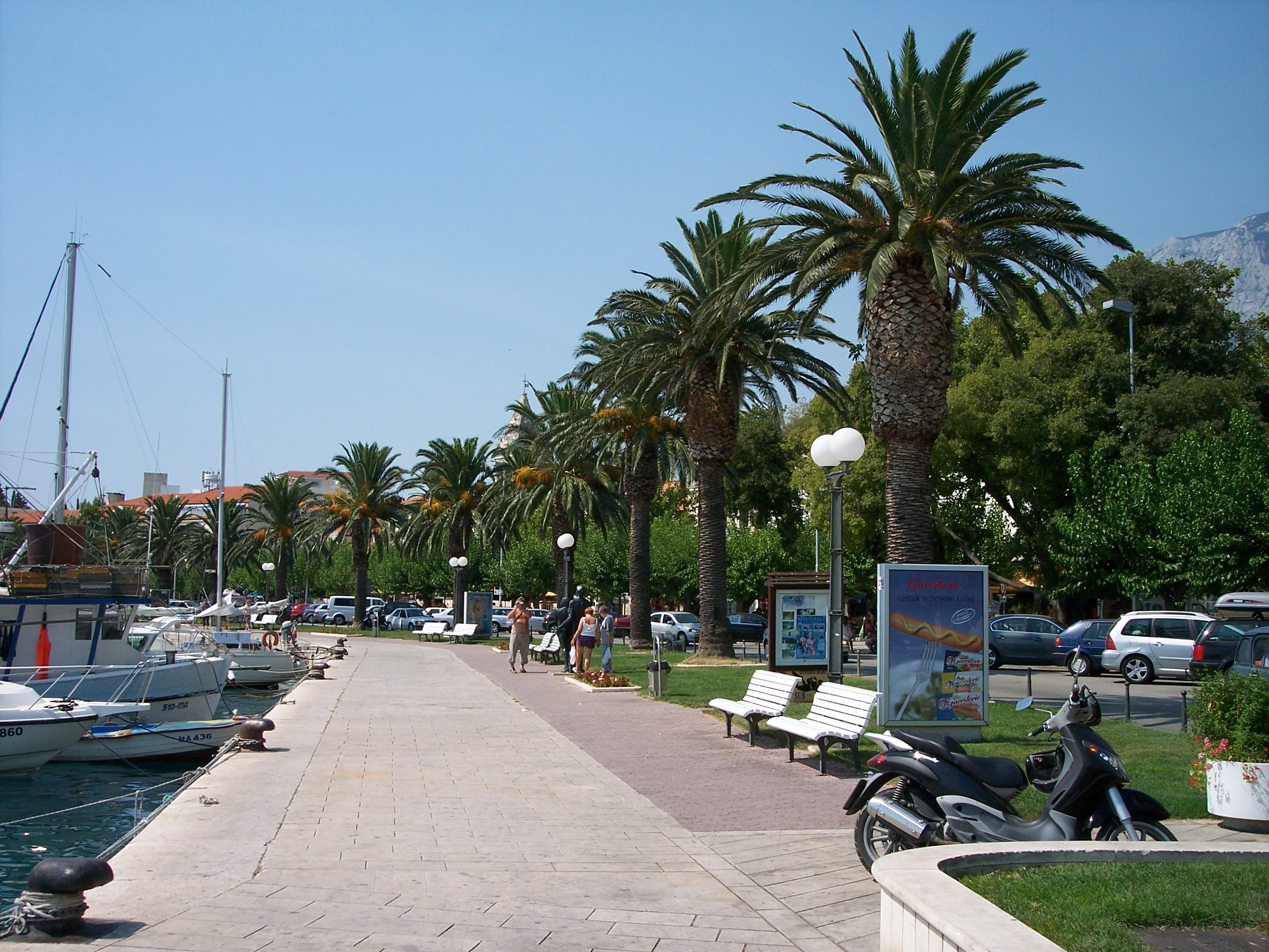 Makarska]